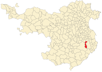 La Bisbal d'Empurdà